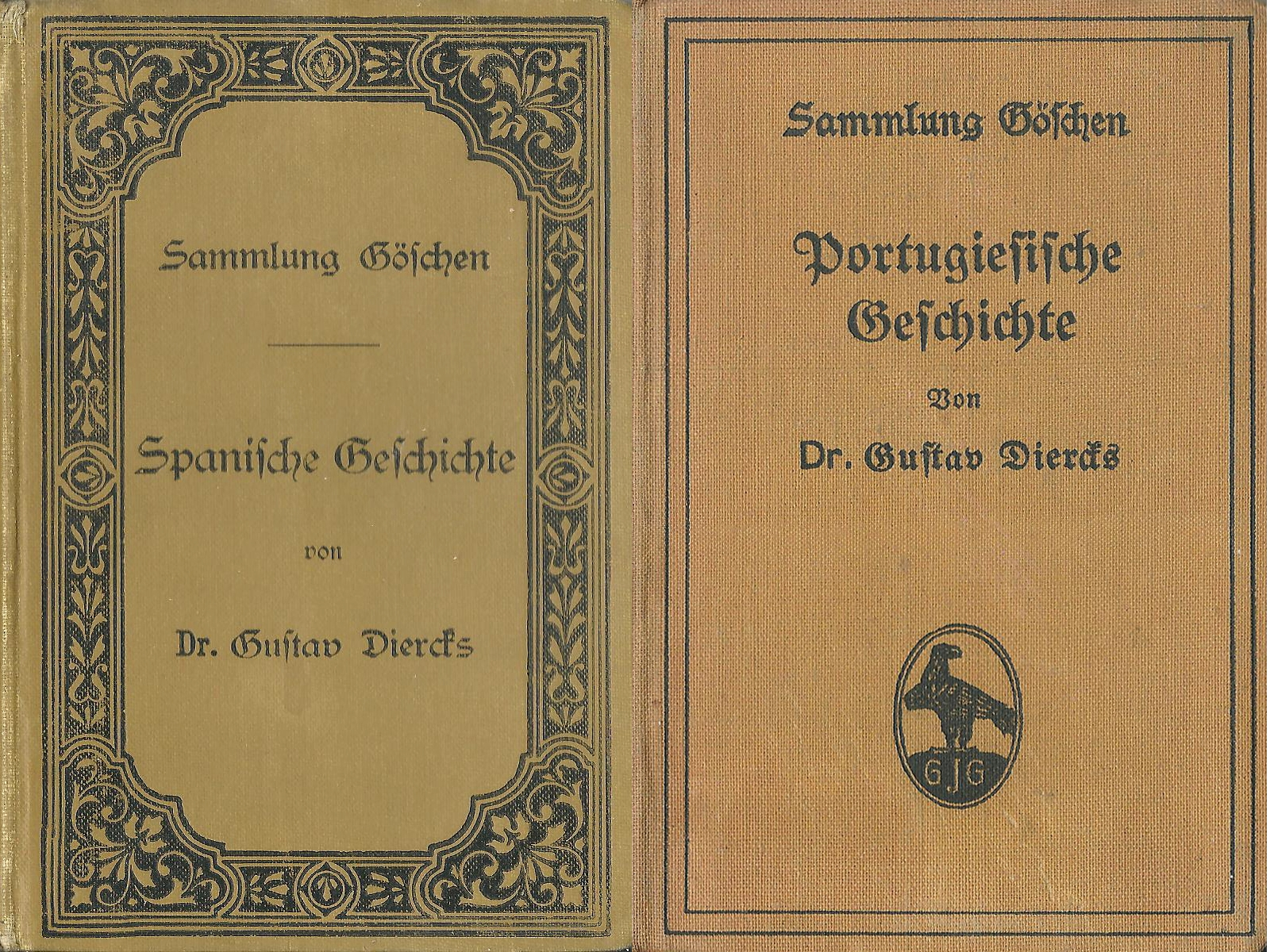 Books of Gustav Diercks (PhD), published by edition Göschen (Leipzig) Spanish history (Vol. 266, 1905) Portuguese history (Vol. 622, 1912)